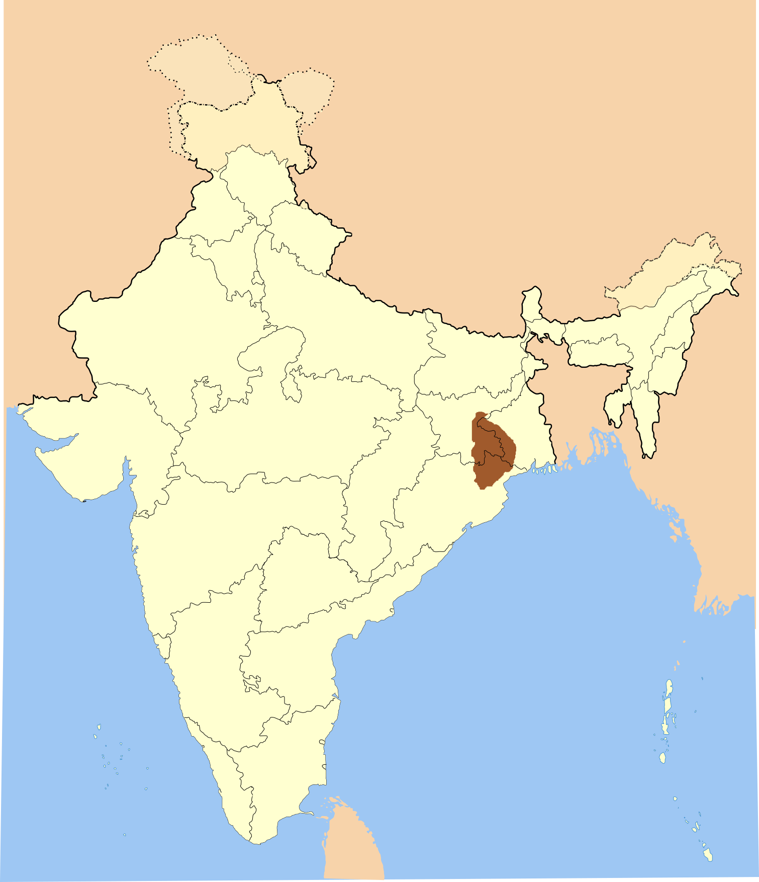 Map of Kurmali-speaking region